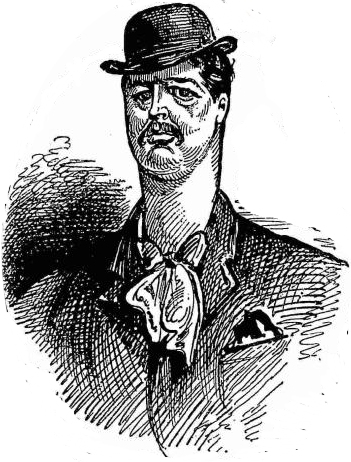 1882 caricature of Henry Brougham Farnie scanned from "Days With Celebrities (52)— H B Farnie." Moonshine, 17 June 1882, p. 277.